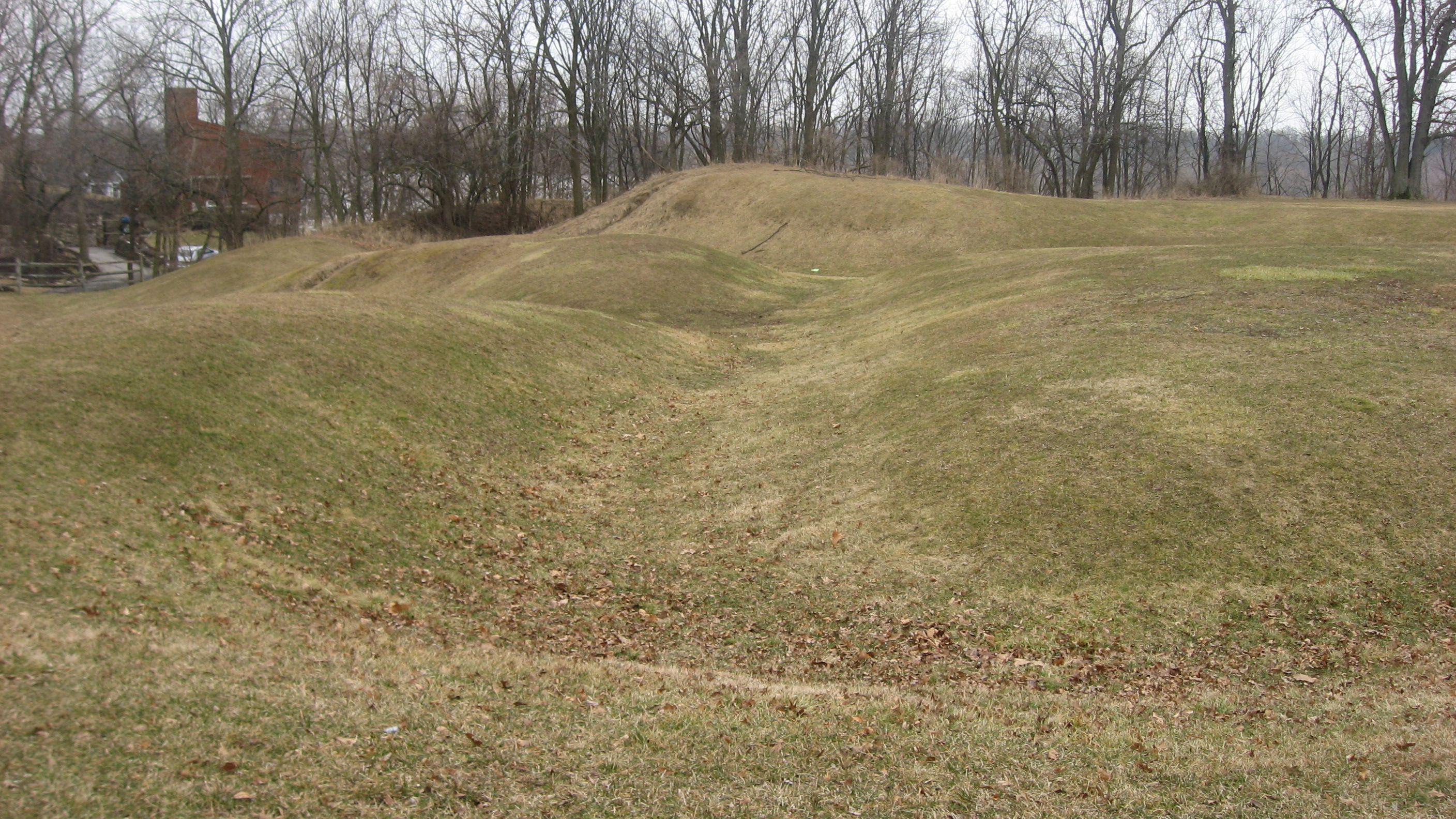 Earthworks at the site of Fort Miamis, located off River Road along the Maumee River in Maumee, Ohio, United States. Established as a British post in 1794 and used sporadically into the War of 1812, it is an archaeological site and listed on the National Register of Historic Places.